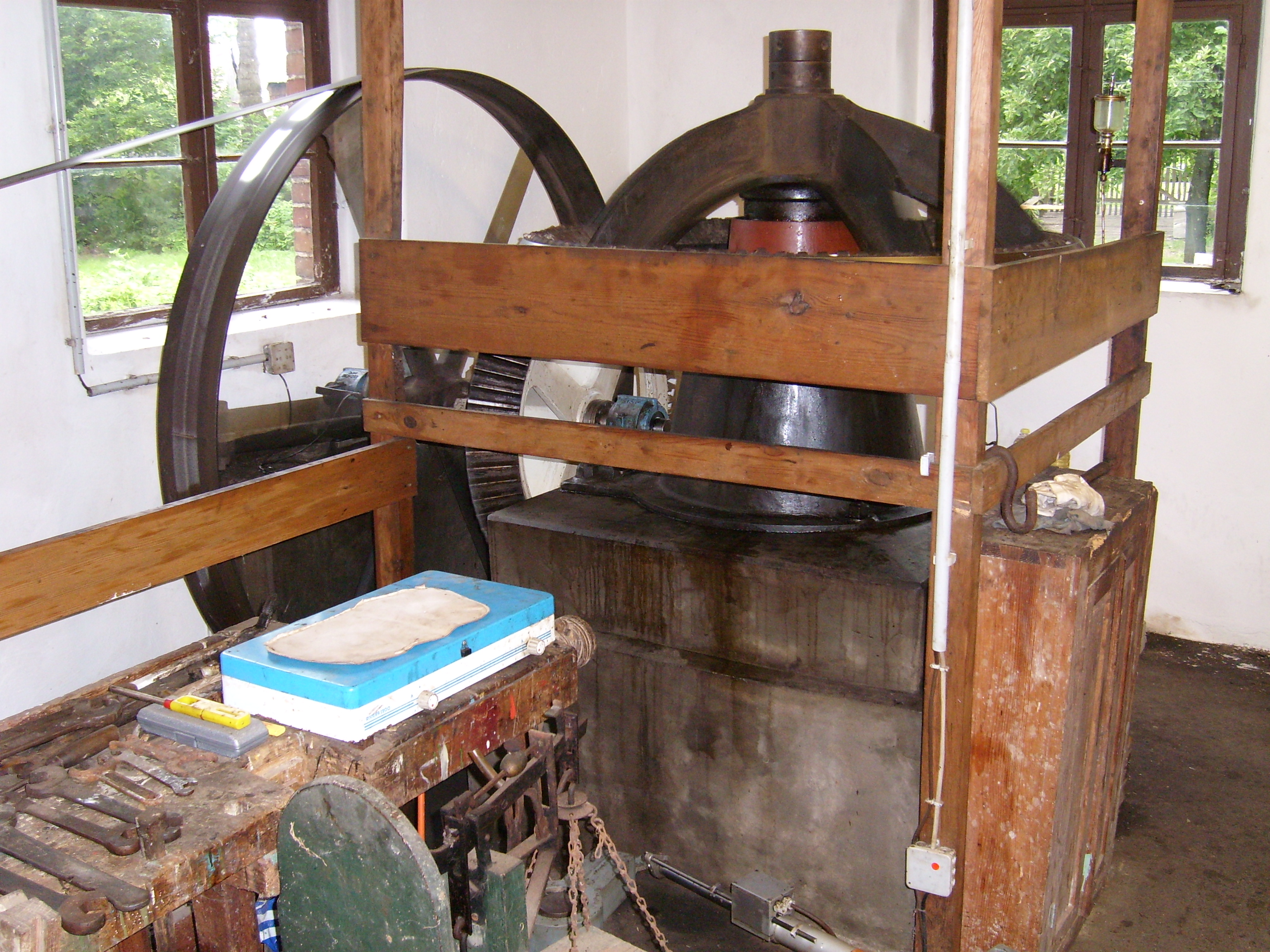 Watermill Doberburg in Lieberose-Doberburg, Landkreis Dahme-Spreewald, Brandenburg, Germany.